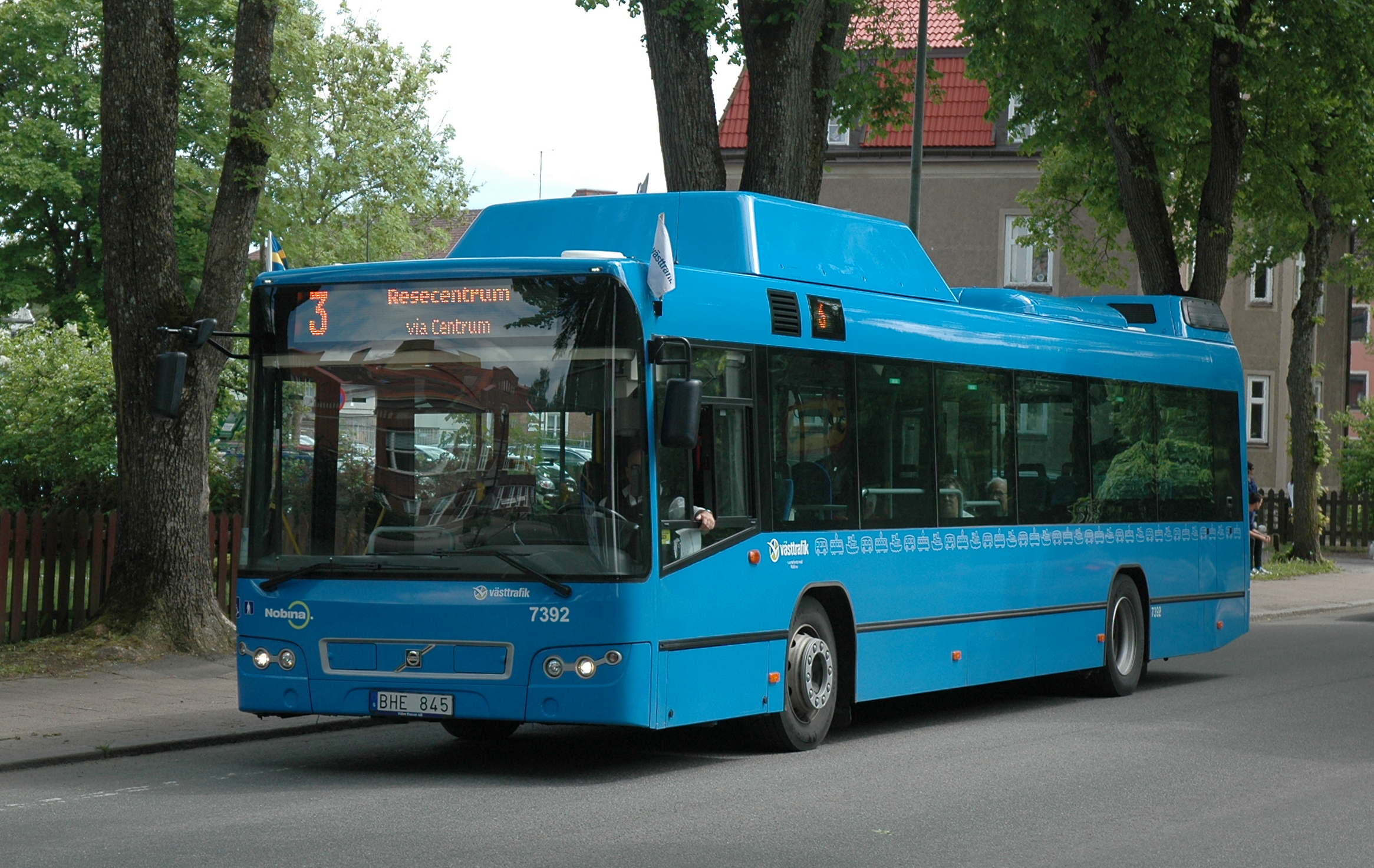 A Volvo 7700 bus, owned by the company Nobina, is here running Line 3 in Falköping (in Västergötland, Sweden) for Västtrafik.